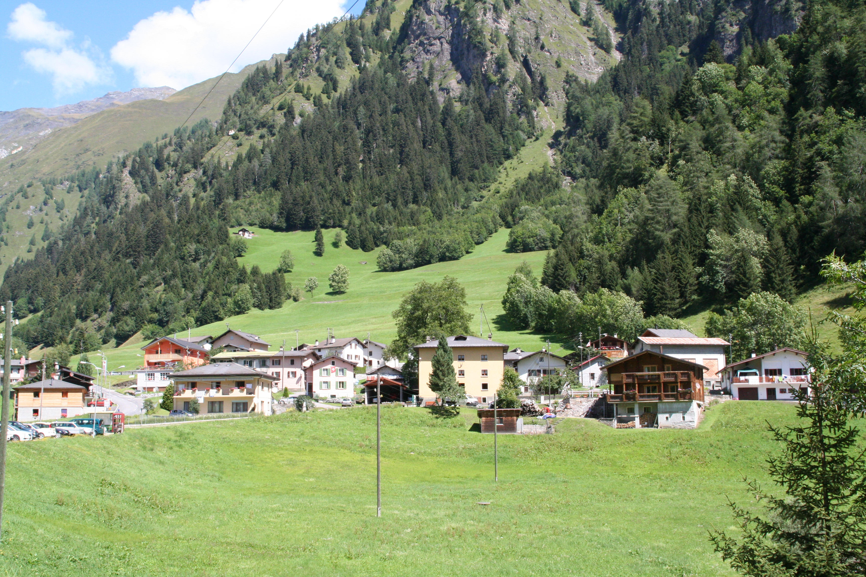 Ghirone Ghirone